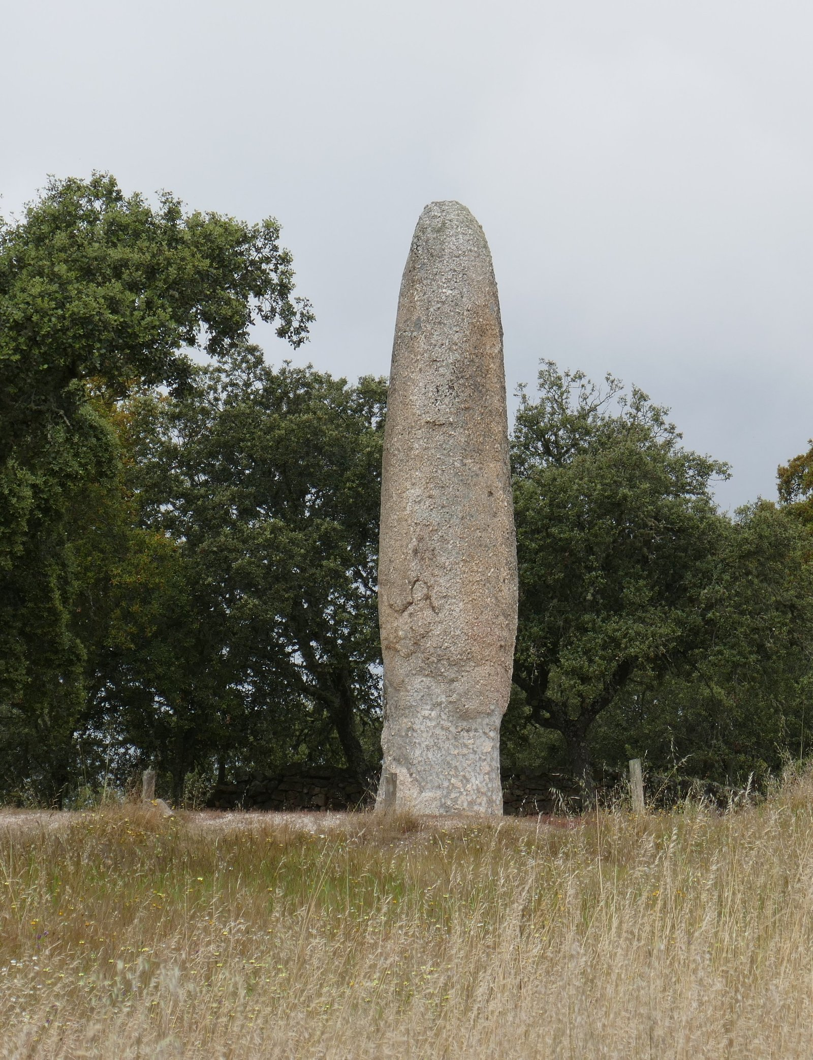 Seven metres high, the Menhir da Meada (near Castelo de Vide, Alentejo, Portugal) is the largest known standing stone in the Iberian Peninsula